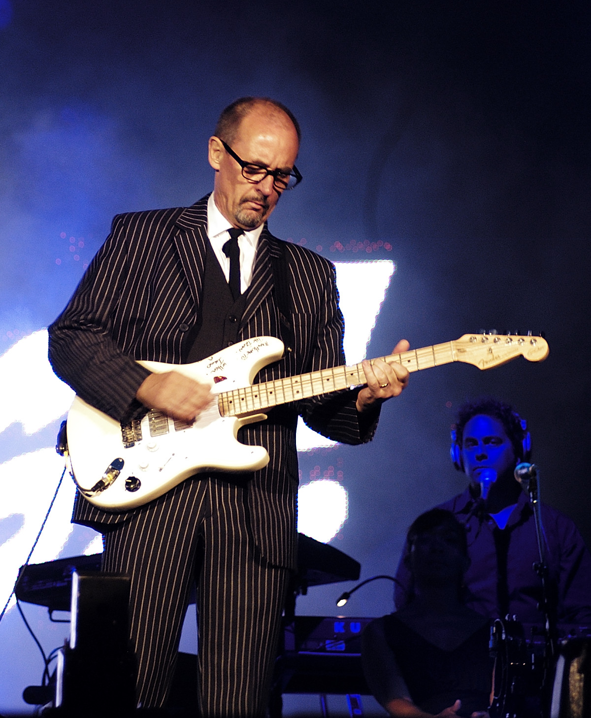 Guitarist Andy Fairweather-Low, Roskilde Festival